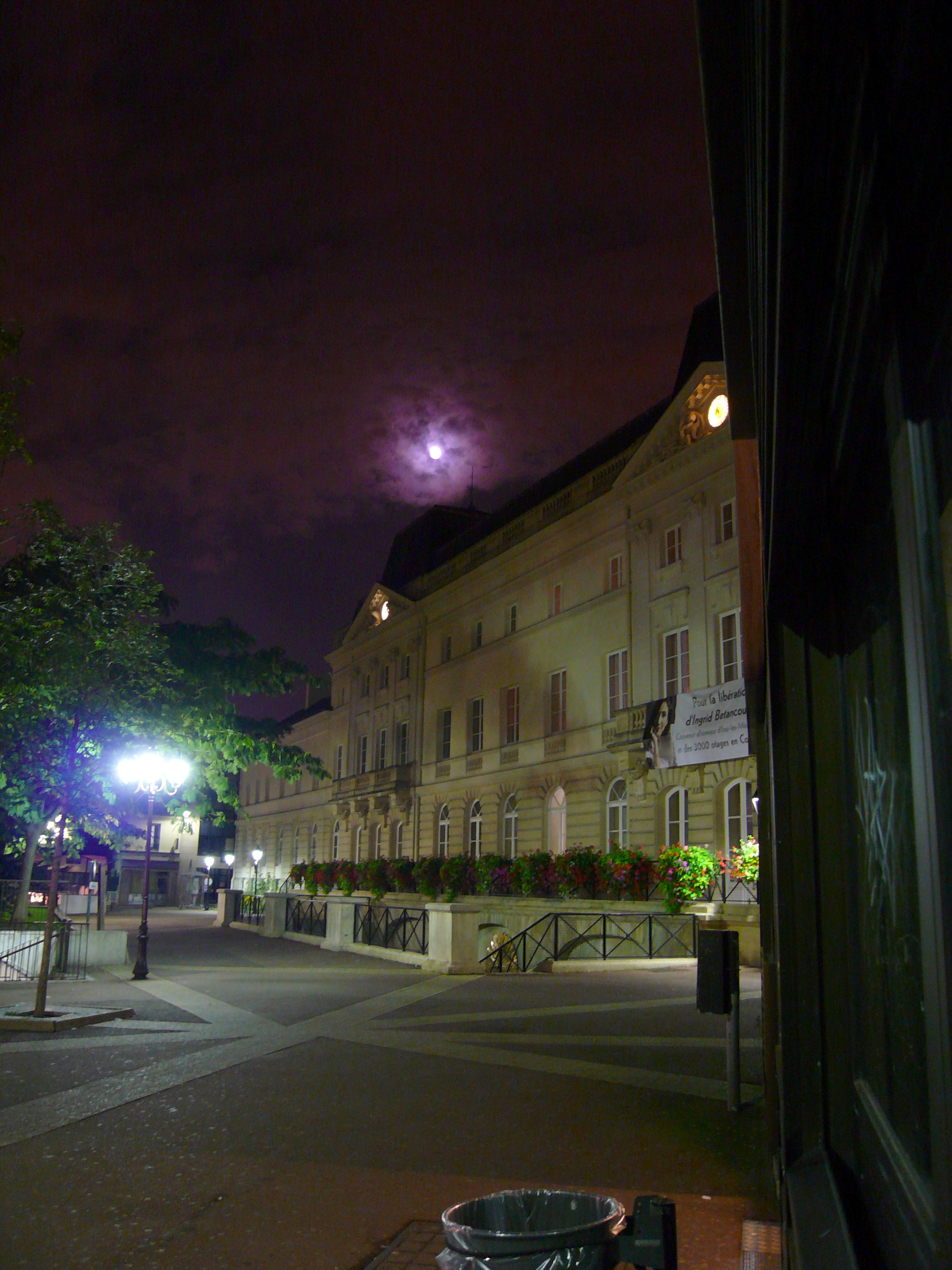 Town hall of Issy-les-Moulineaux